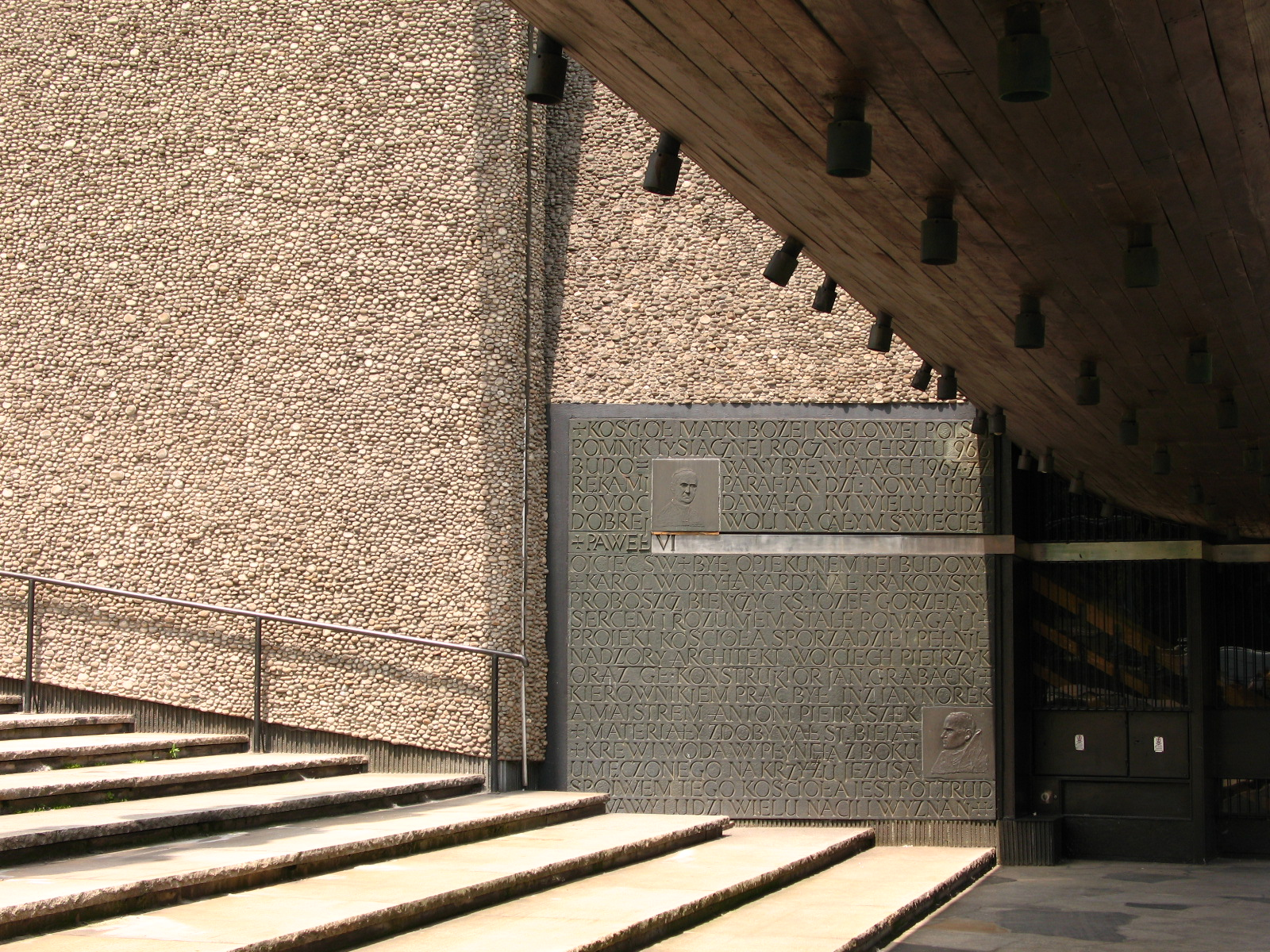 Memorial plaque. The Lord's Ark church in Bieńczyce, Nowa Huta district, Kraków, Poland.